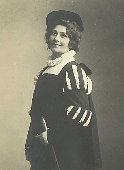 Cropped version of a photograph of the Danish opera singer Margarethe Lendrop (1873-1920) in costume for a Royal Danish Theatre presentation of Faust.